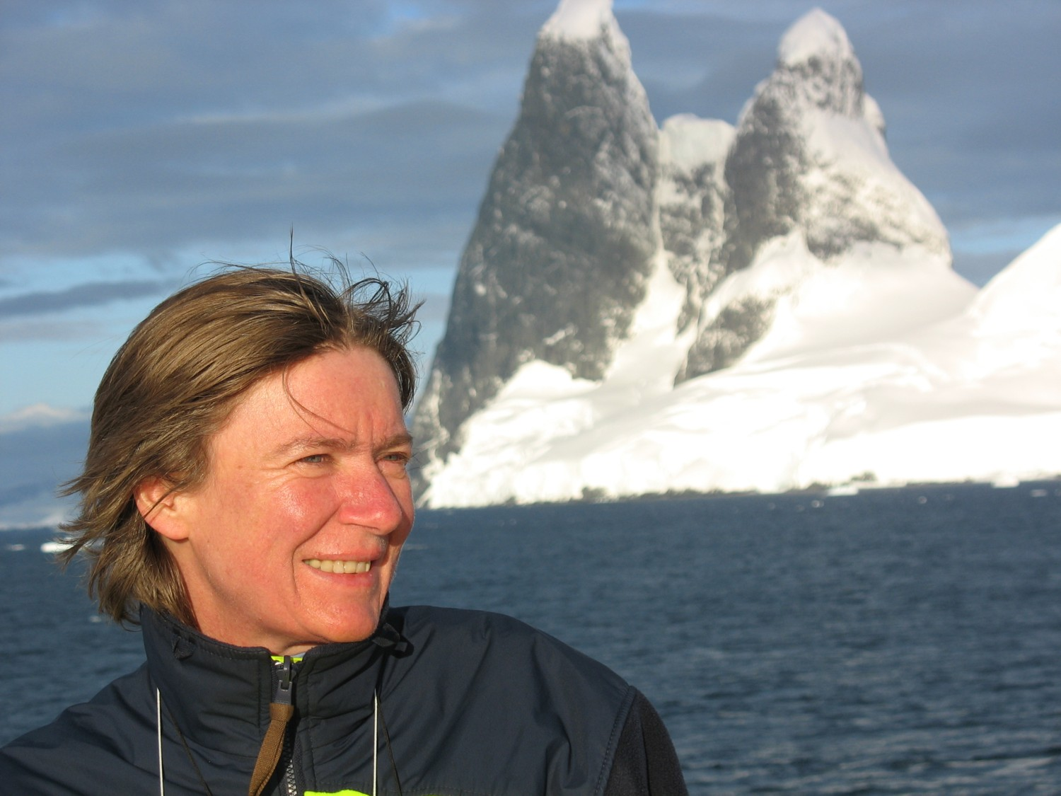 Cornelia Lüdecke during a cruise through the Lemaire Channel.